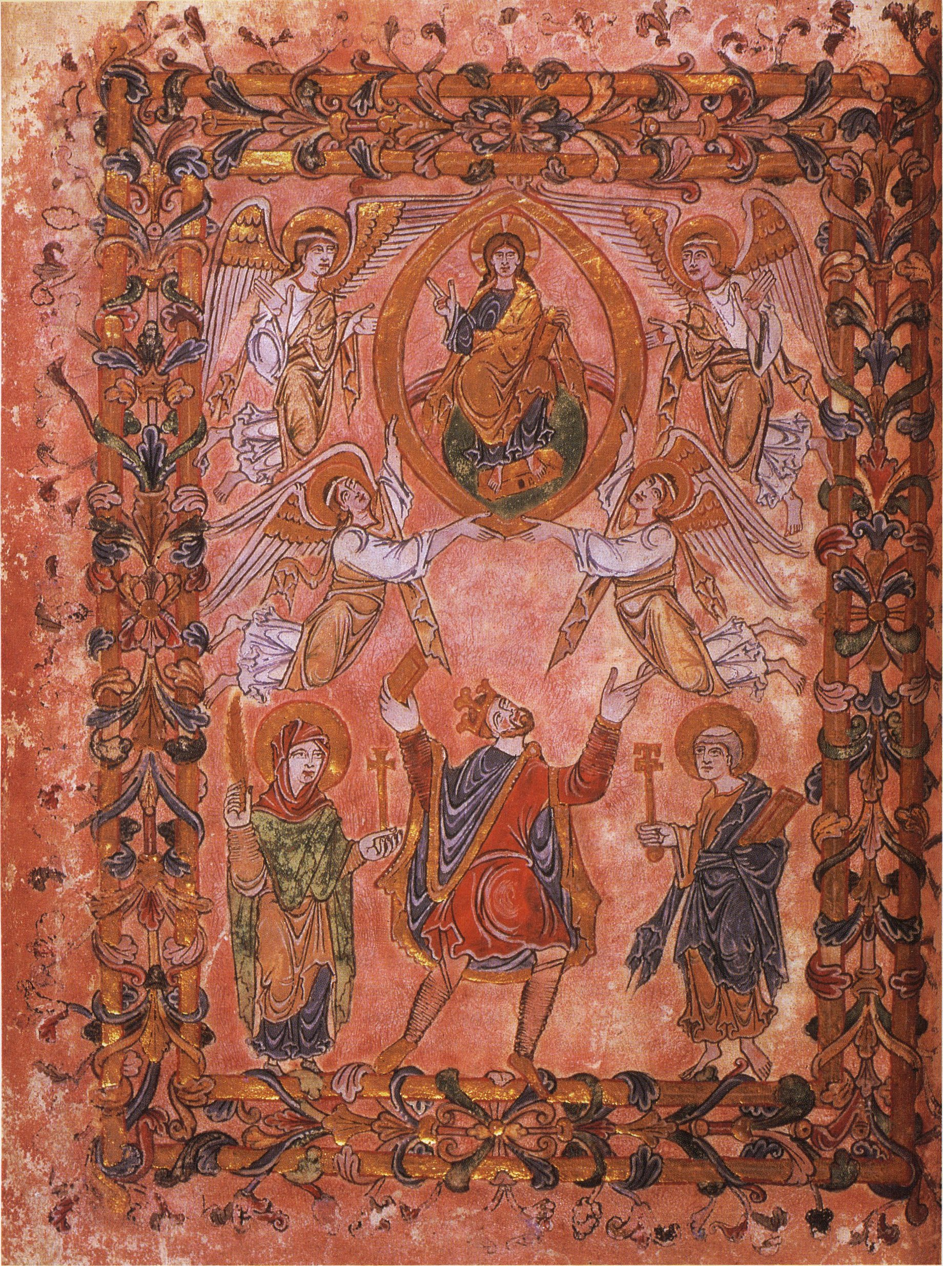 This is a page from a 966 charter of King Edgar of England in which he confirms the conversion of New Minster into a Benedictine monastery. British Library MS Cotton Vespasian A viii.